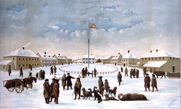 Print, Interior of Fort Garry, H. A. Strong, 1884, 45.8 x 74.1 cm